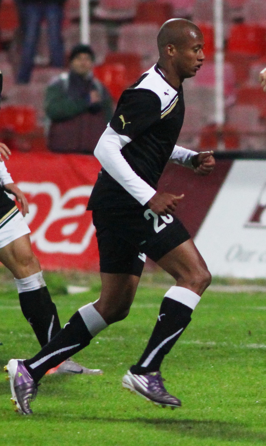 Elidiano Marques Lima (born 14 March 1982 in Ibirité) is a Brazilian football player, who currently plays as a right wingback for Slavia Sofia.